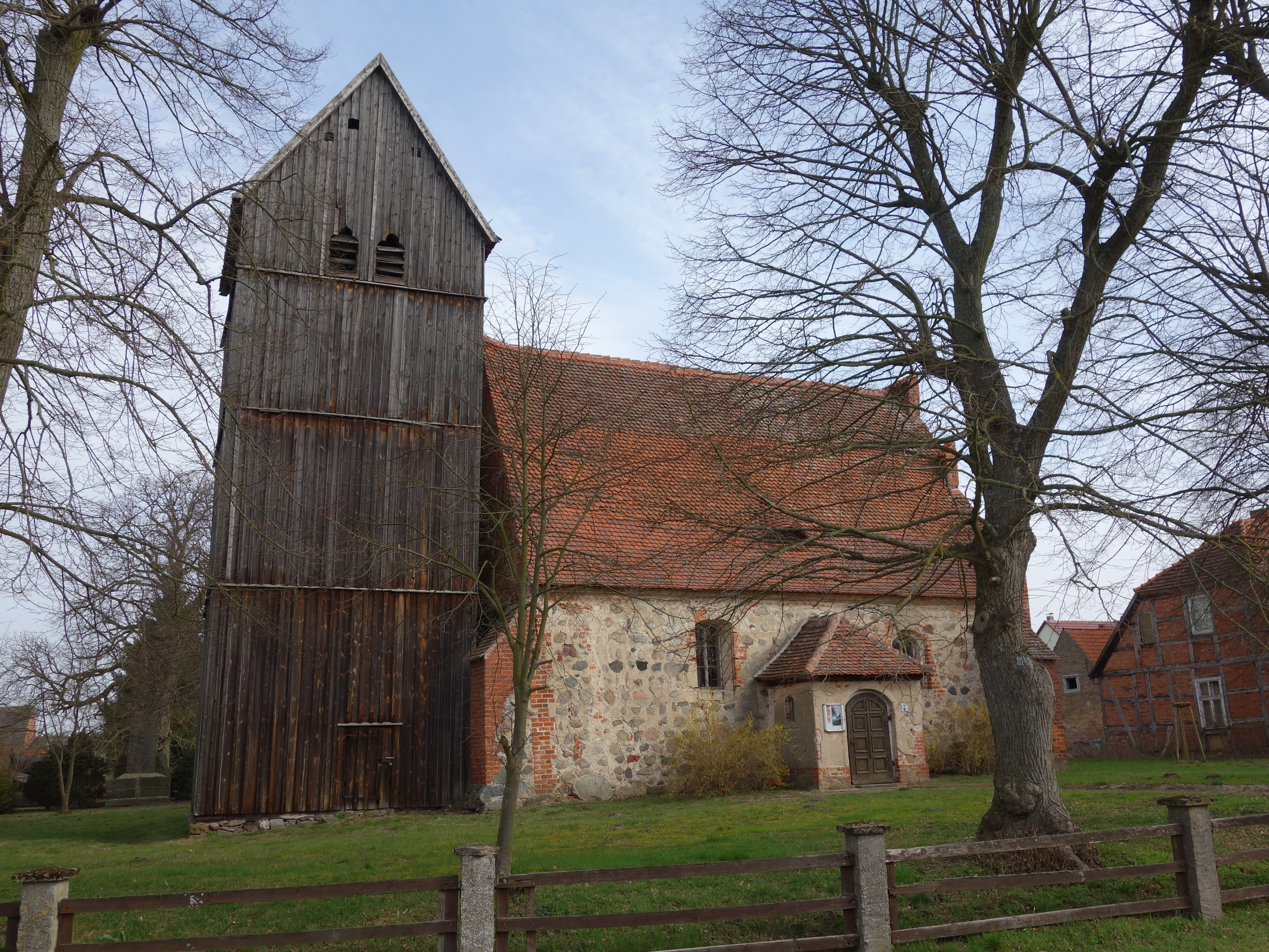 South-south-western view of church in Rossow, Wittstock municipality, Ostprignitz-Ruppin district, Brandenburg state, Germany